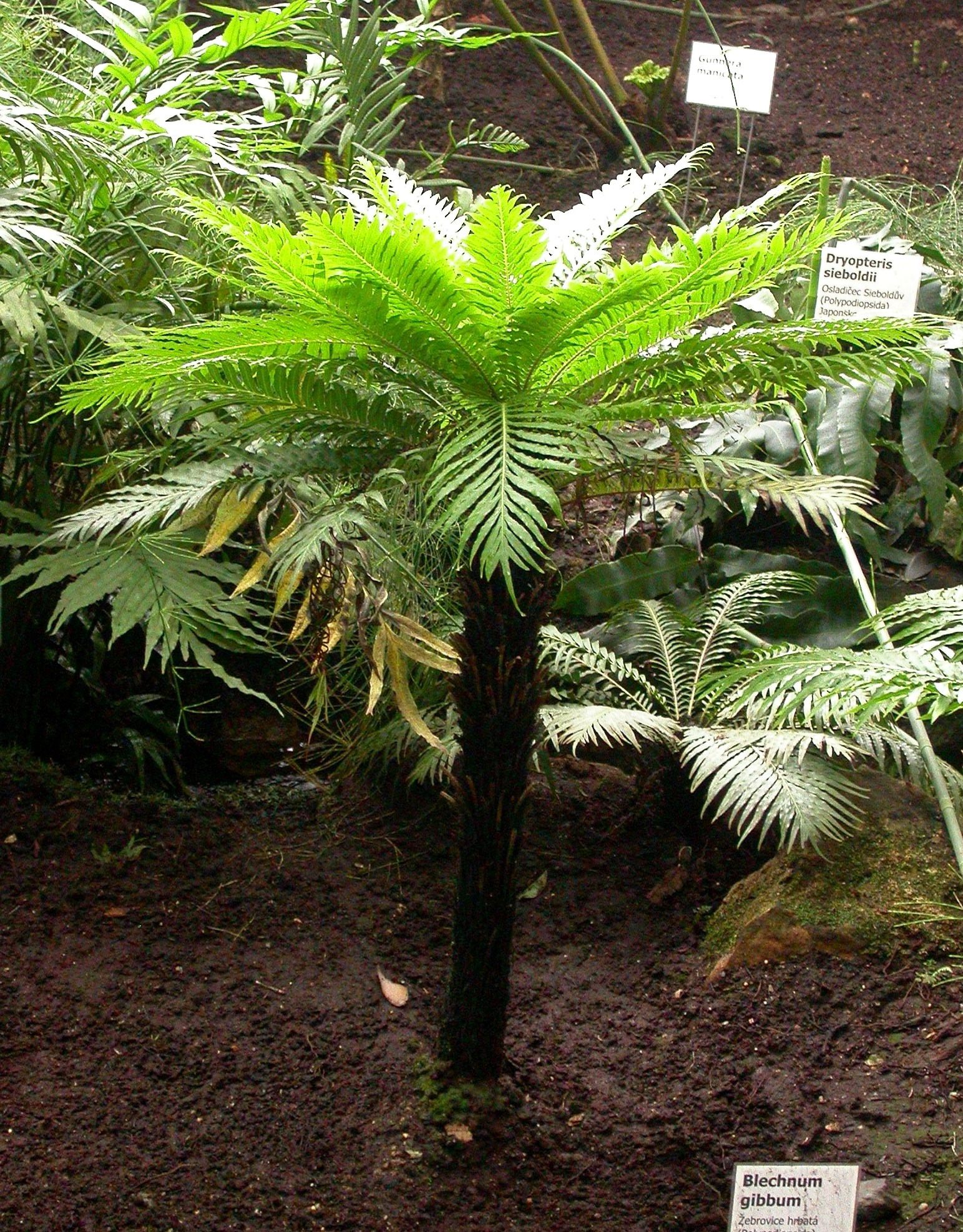 Blechnum gibbum in Botanical Garden Liberec, Czech Republic